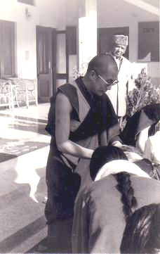 The 14th Dalai Lama greetings Tibetans at Losar 1980 in Dharamsala